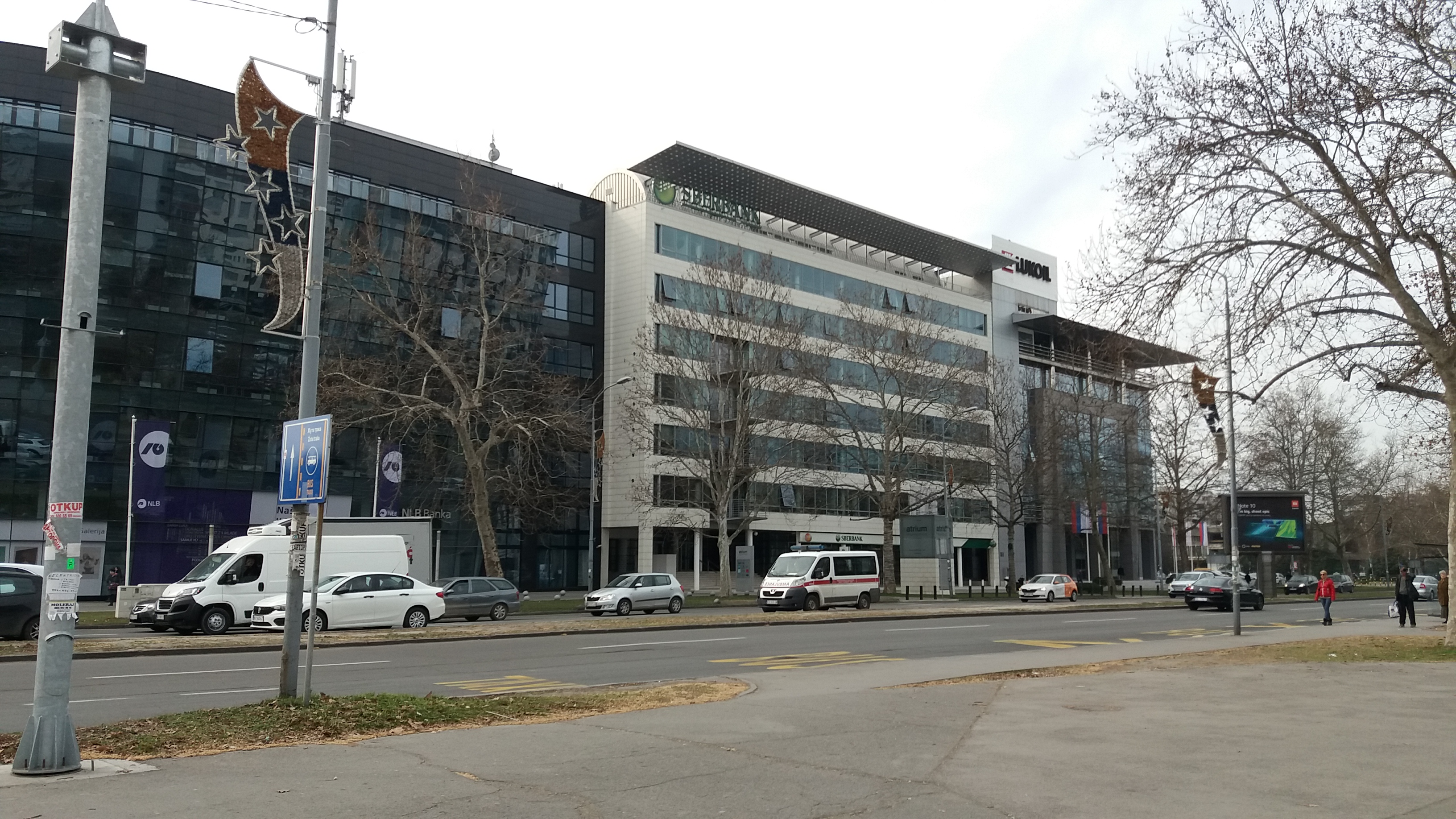 Block 31, New Belgrade, Boulevard of Art